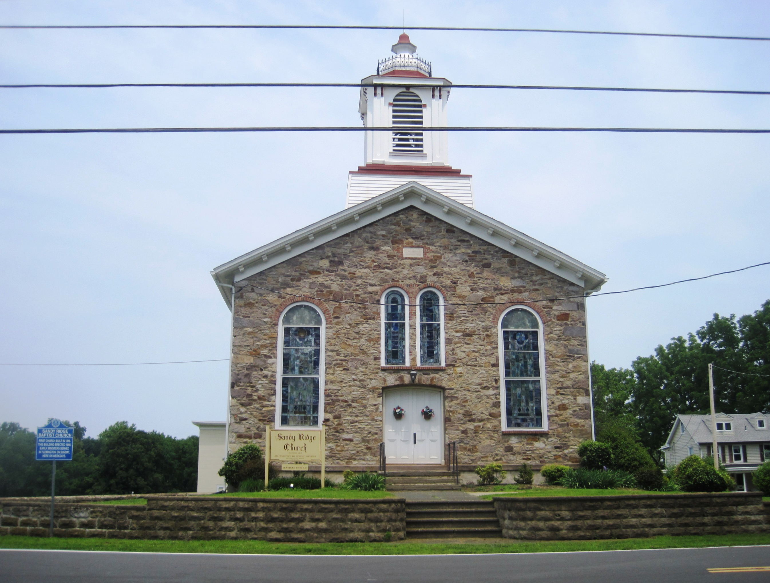 Photo of the Sandy Ridge Church in Sandy Ridge, New Jersey, an unincorporated community within Delaware Township. Photo taken on northbound Sandy Ridge-Mt. Airy Road (County Route 605) at Sandy Ridge Road.